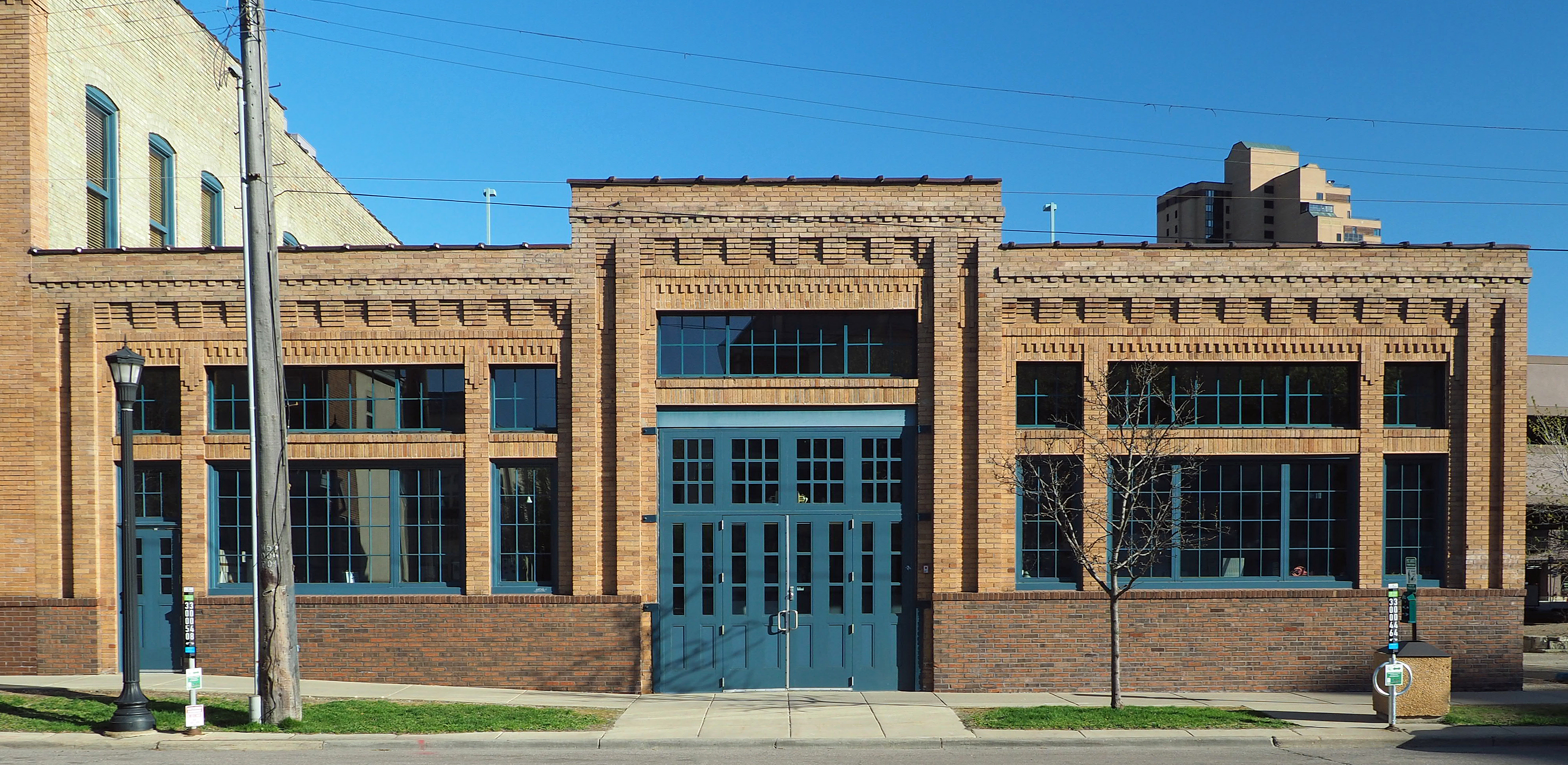 1922 addition, Minneapolis Fire Department Repair Shop, 222 1st Ave NE, Minneapolis, Minnesota, USA. Viewed from the northwest.